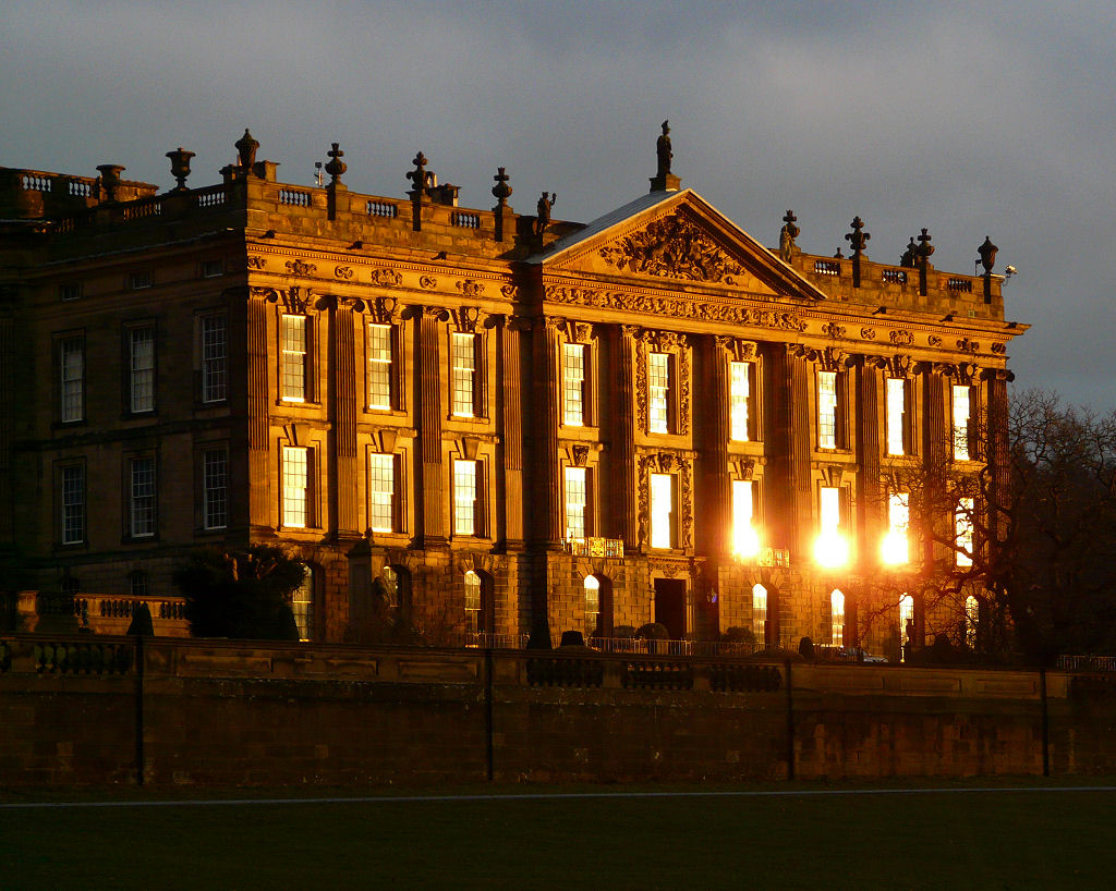 The West Front of Chatsworth House at Sunset